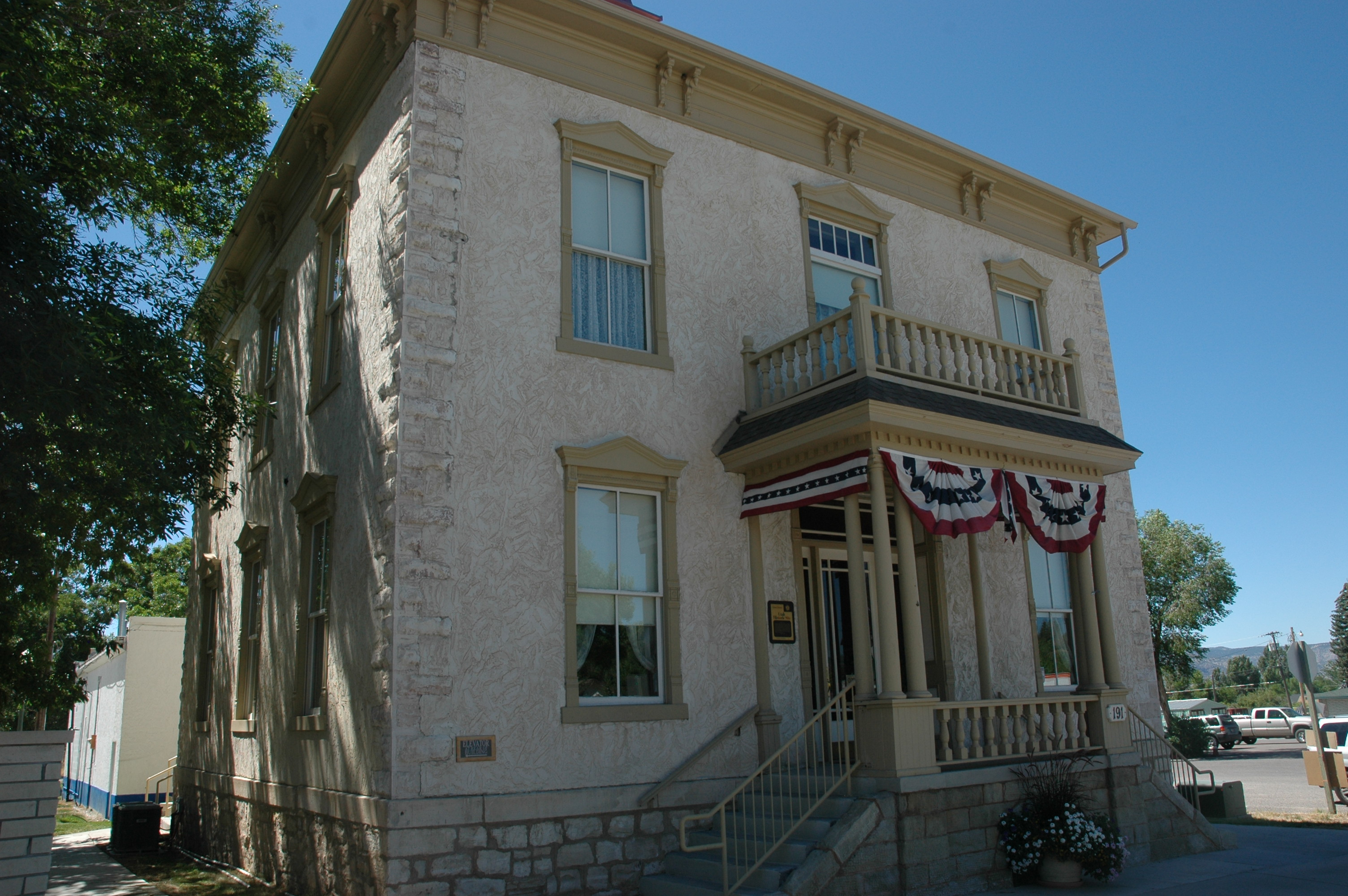 Manti City Hall, a historic building in Manti, Utah, United States.